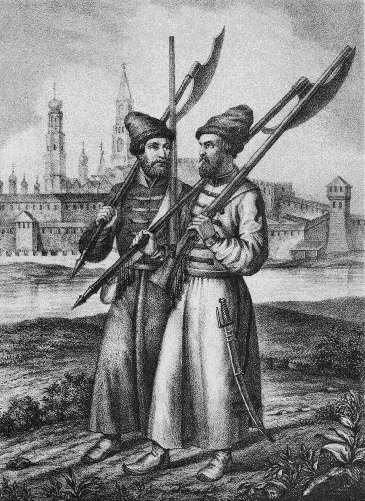 Russian infantry (streltsy, in russ. стрельцы) in 1674.